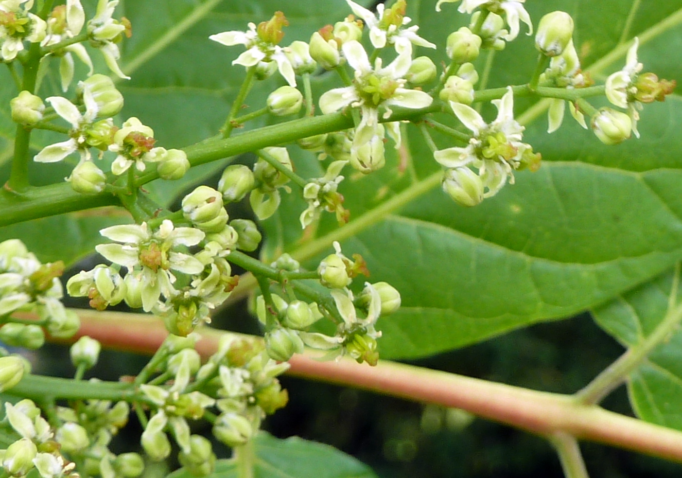 Ailanthus altissima, Tree of Heaven, in the Shakespeare Garden, next to the Rose Garden, in Stanley Park. Male and female flowers grow on separate trees. This one is female. There are excellent close-up photos (not mine) of the male and female flowers on this Ailanthus altissima Hub Page. Great write-up too.